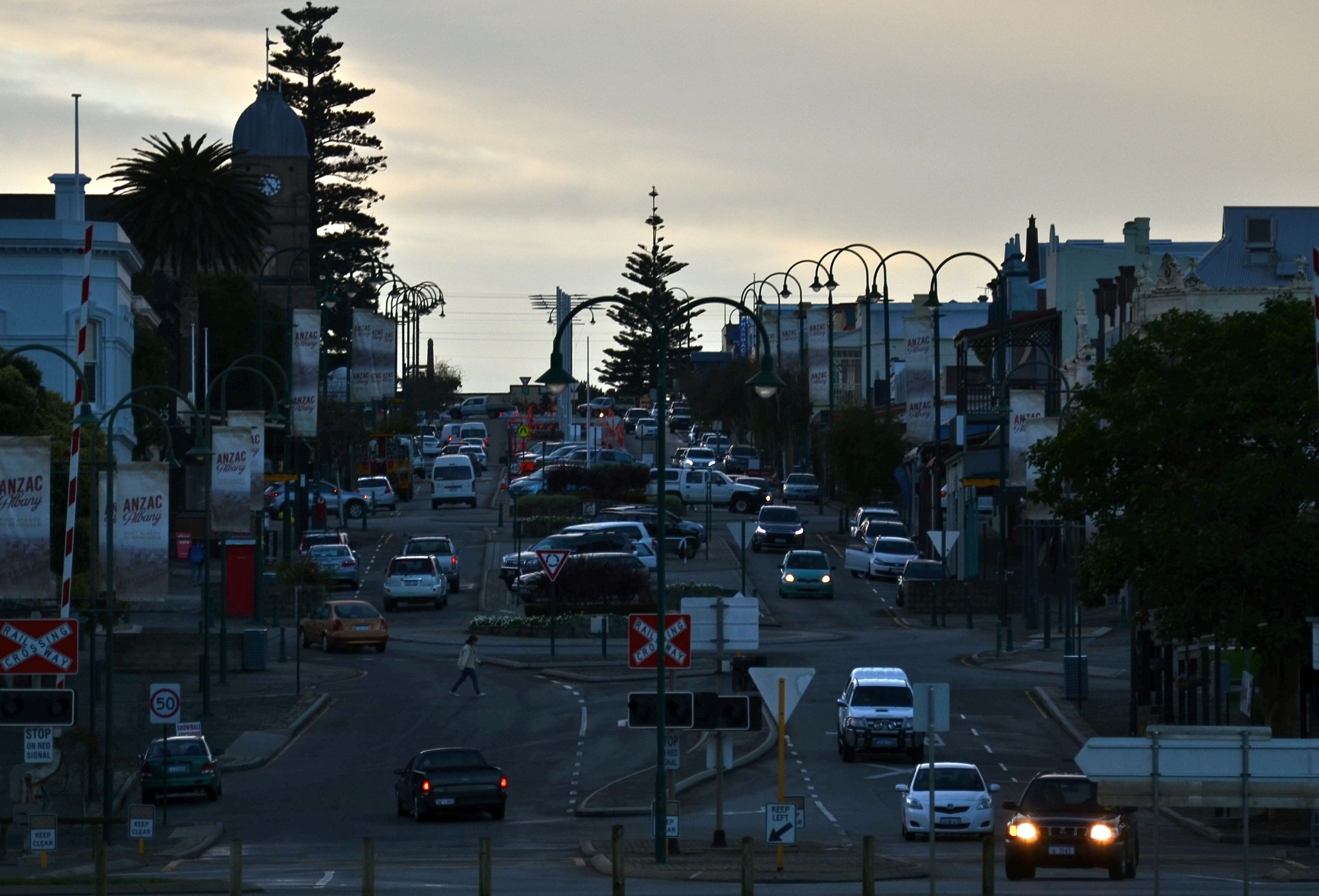 York Street Albany early evening April 2016